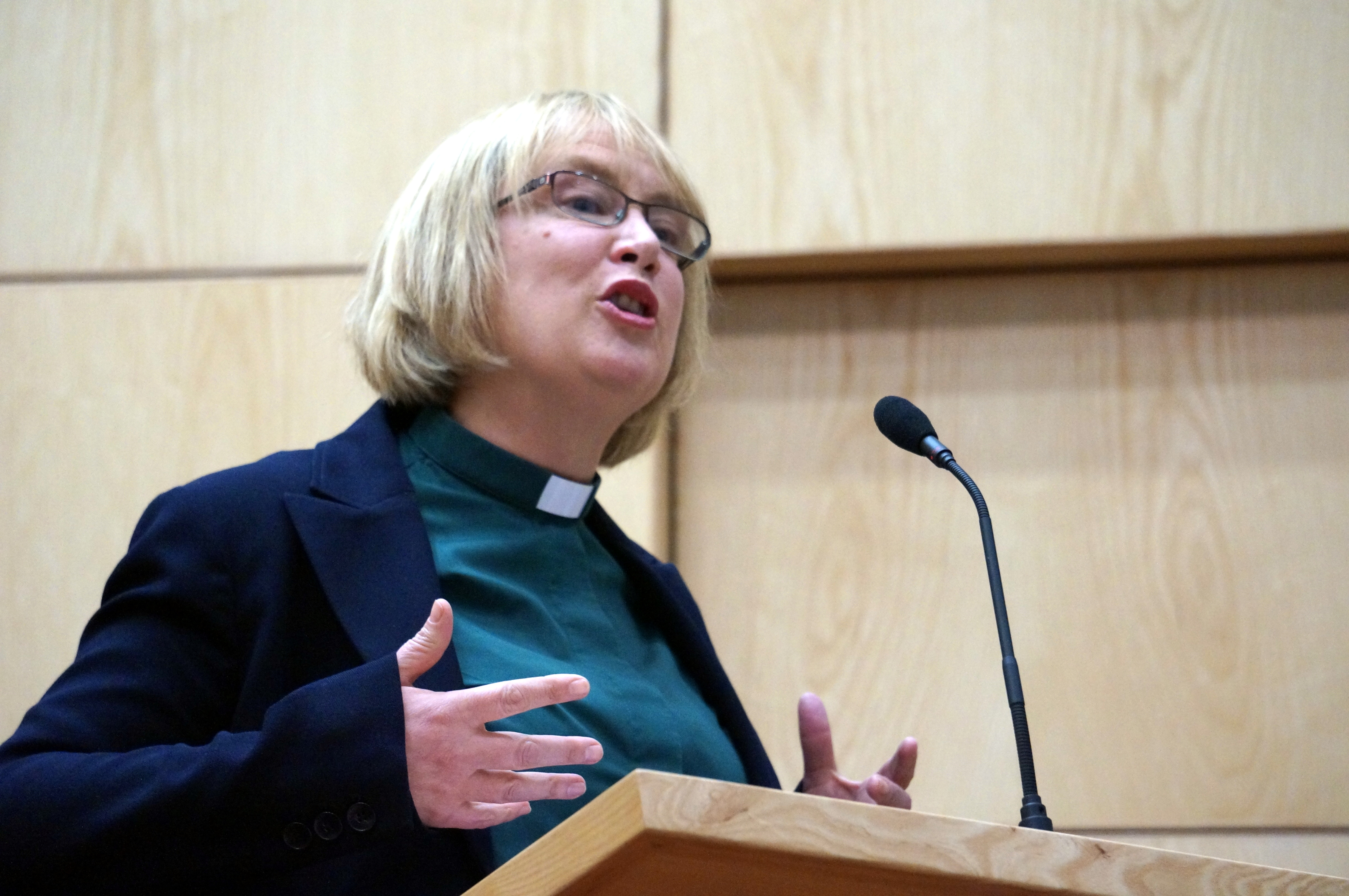 Rev. Dr. Heather Morris President of the Methodist Church in Ireland and Director of Ministry at Edgehill Theological College (South Belfast).